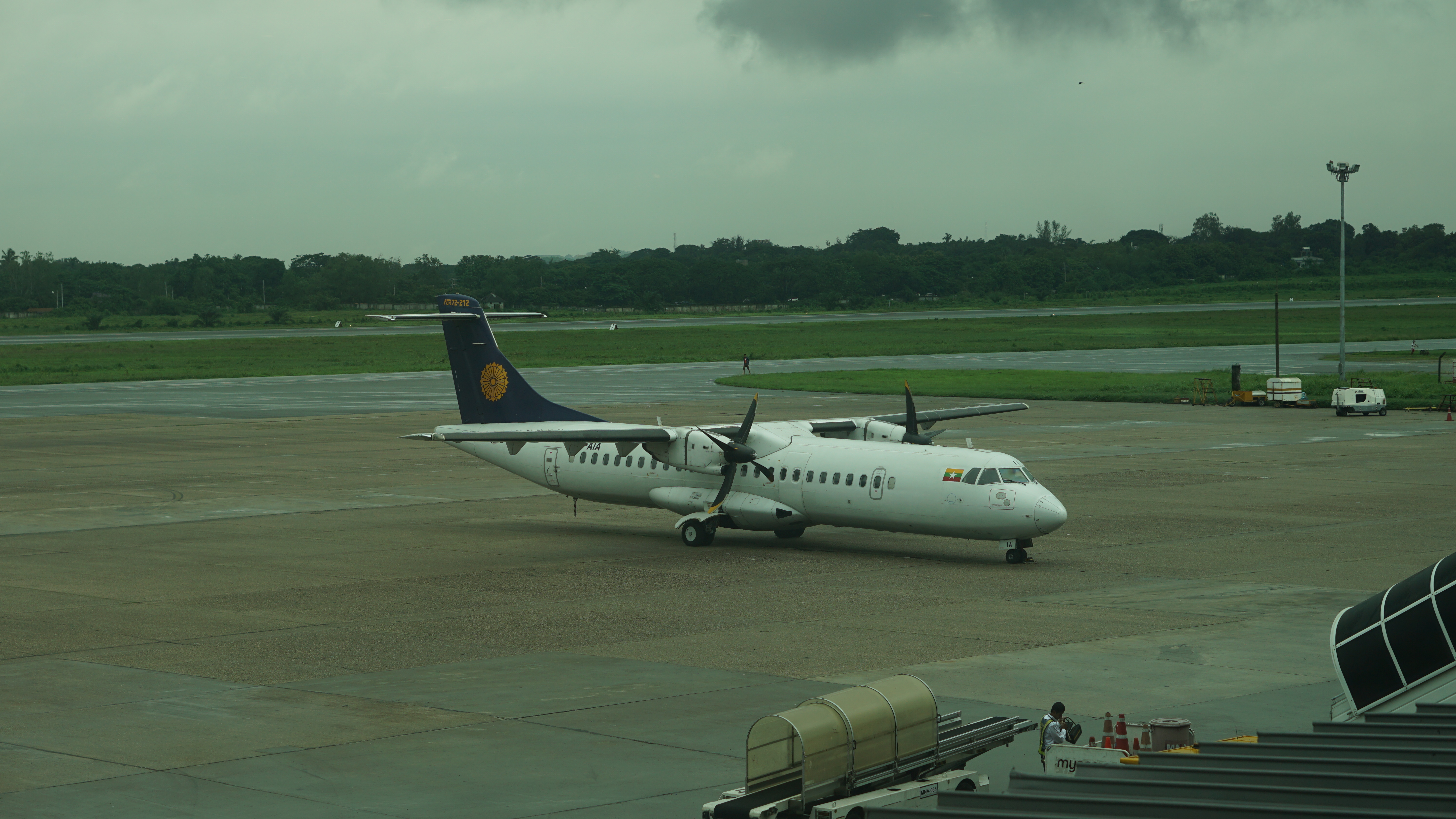 An ATR-72 of Myanmar National Airlines in Yangon International airport in 2016